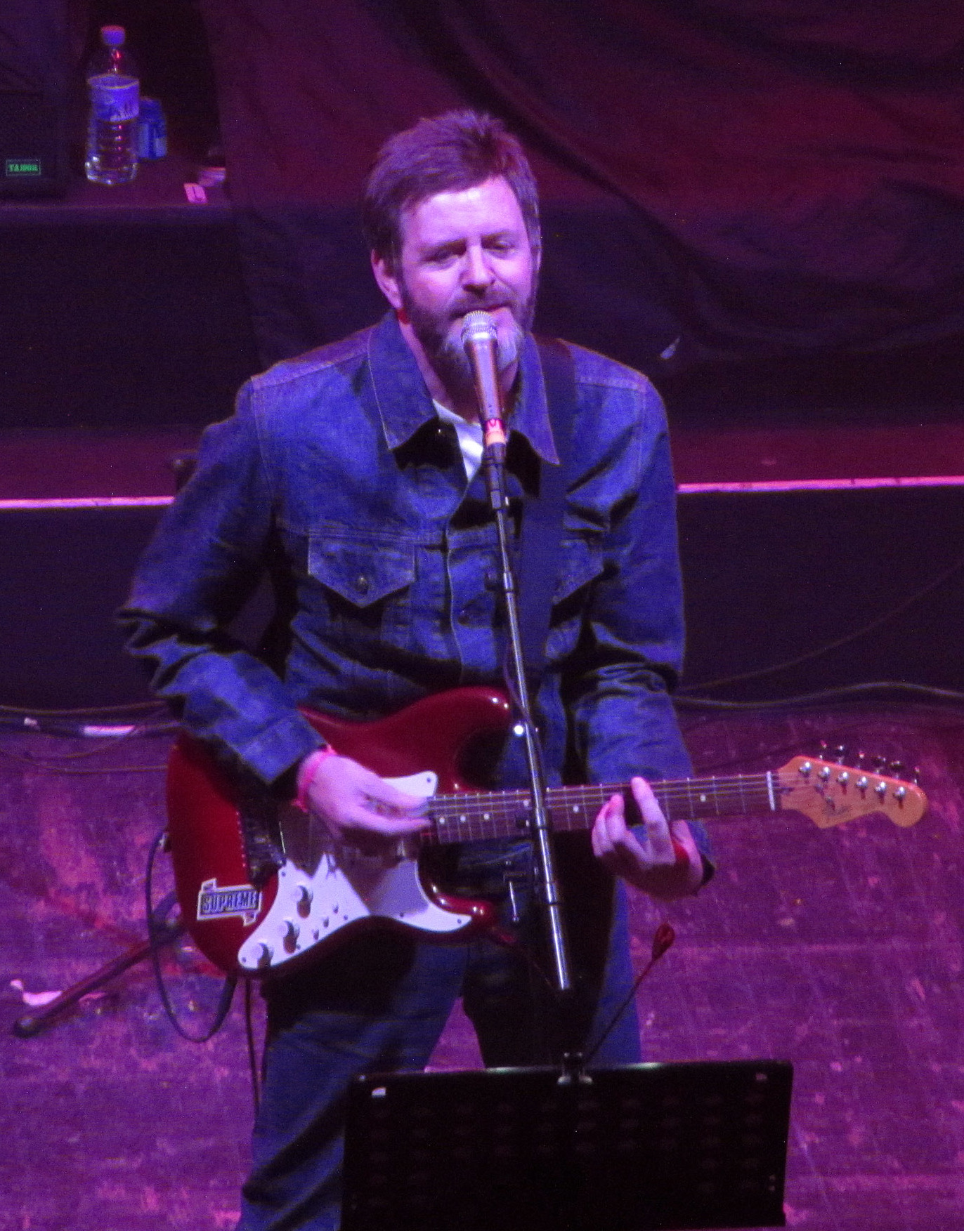 Green Gartside of Scritti Politti live at Brixton Academy, supporting Manic Street Preachers